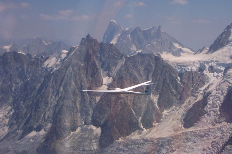 Glider flying near Mont Blanc. Aiguille du Midi and Grandes Jorasses also visible